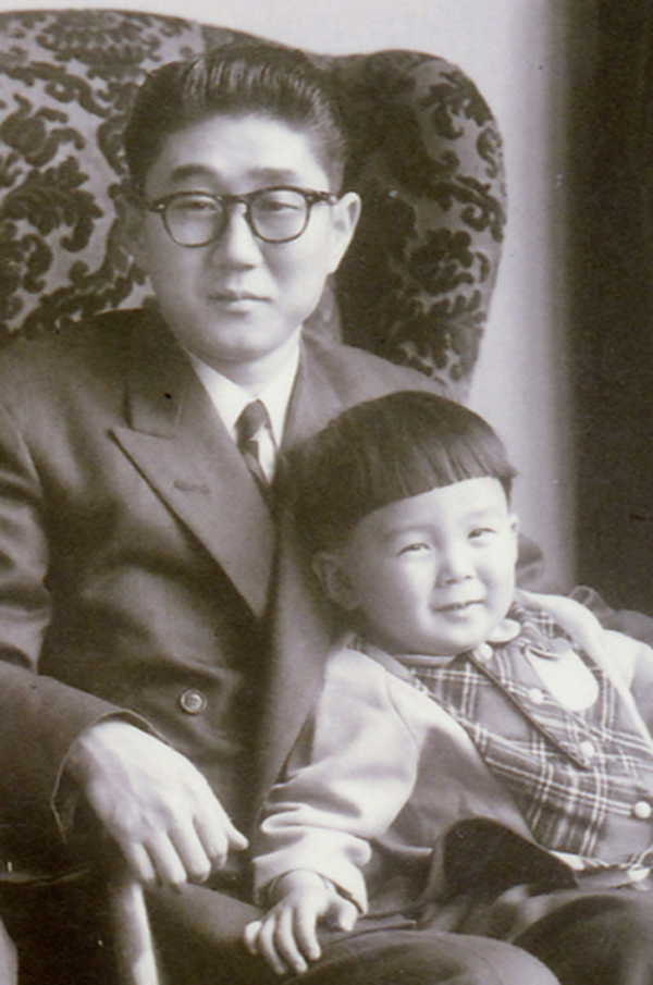 LDP congressman Shintarō Abe with his oldest son Hironobu